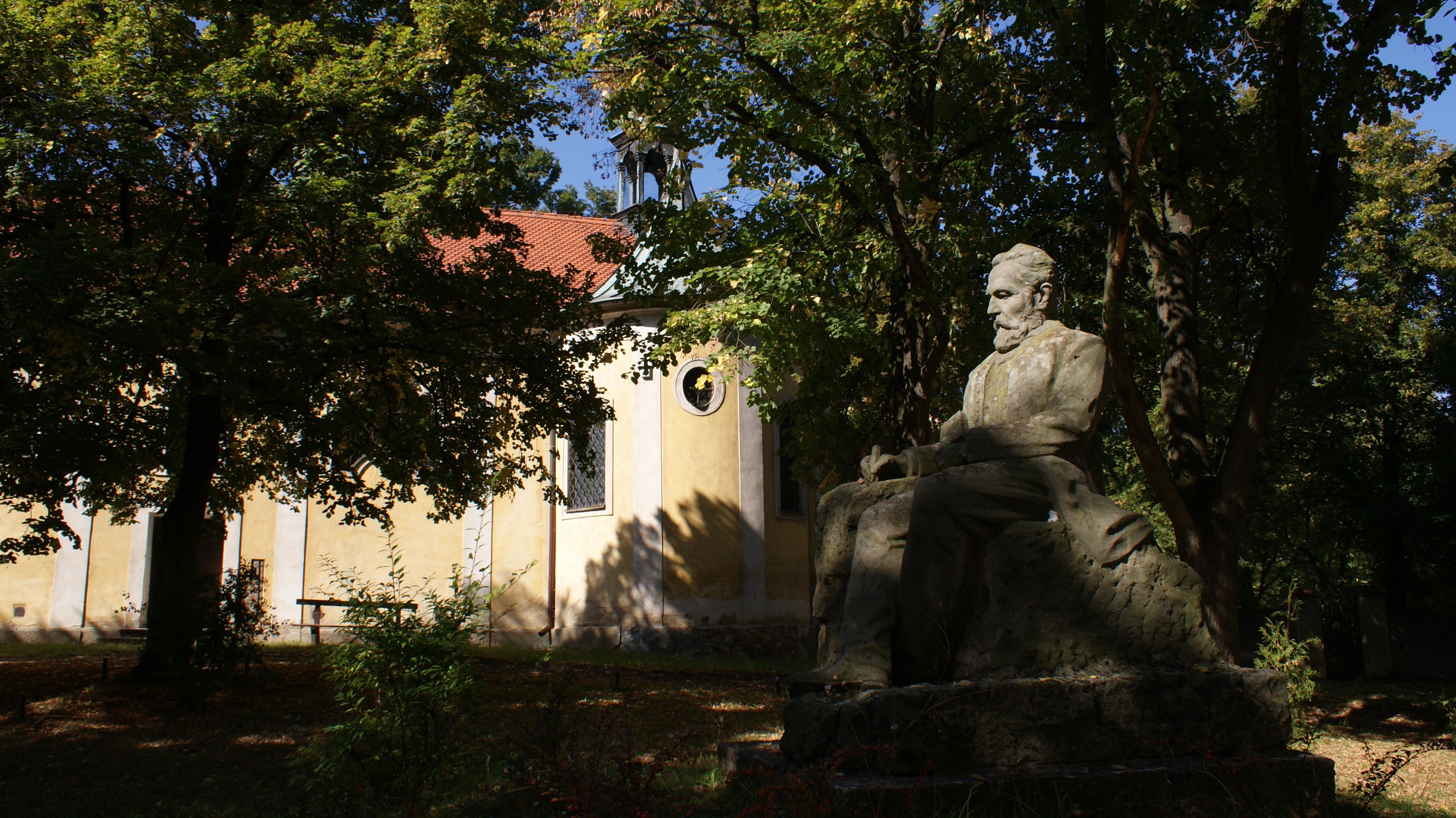 Svatopluk Čech Monument was built in 1938